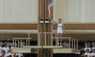 Sergei Belov, the last torchbearer in the 1980 Summer Olympics. This picture is a derivative form of a larger one, published by RIA Novosti in Commons.